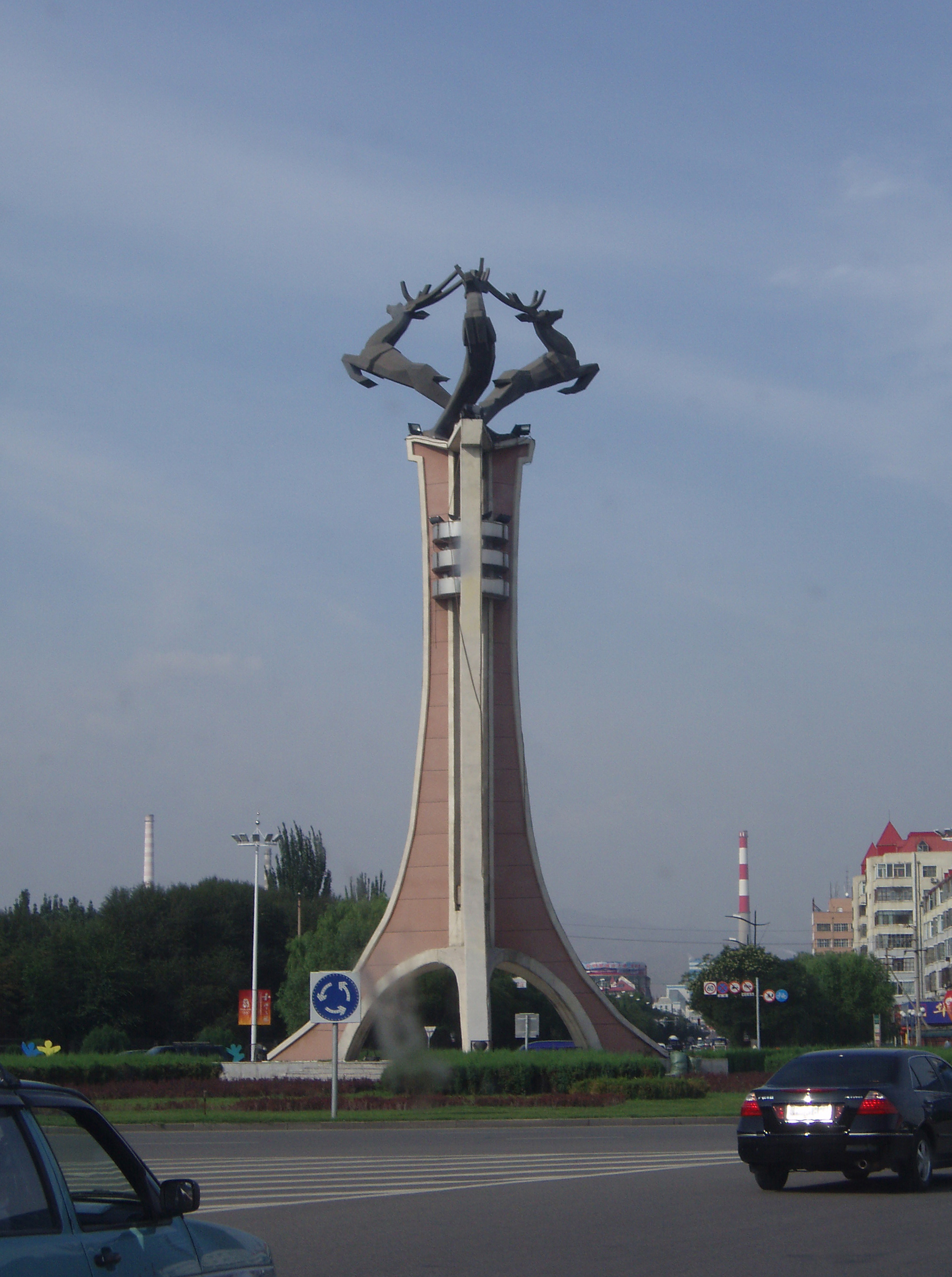 The mounment in Baotou City, Inner Mongolia, China